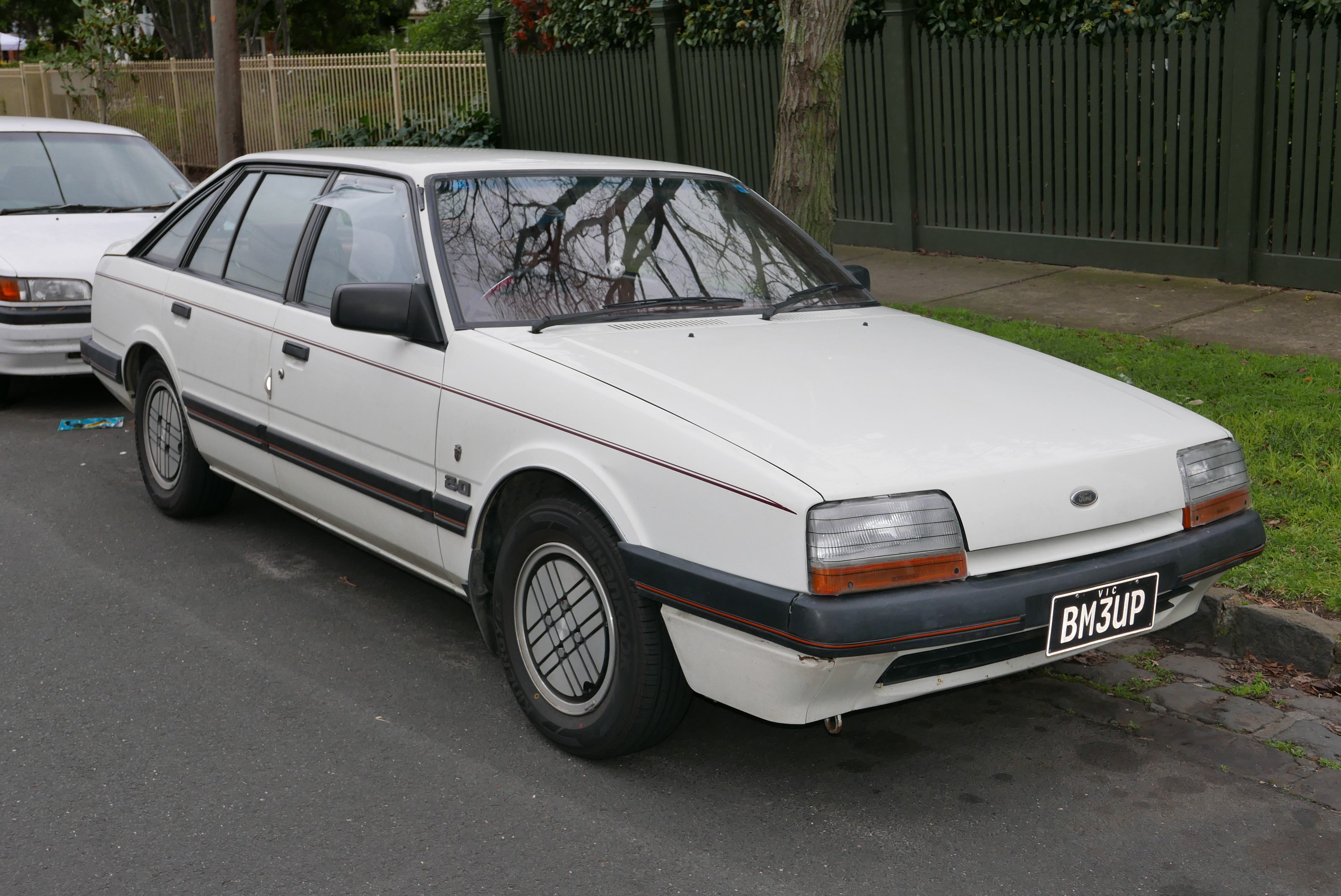 1983 Ford Telstar TX5 (AR) Ghia hatchback. Photographed in Coburg, Victoria, Australia. Vehicle registration enquiry results Jurisdiction Victoria Registration BM3UP Chassis code UG8HBY89060B Engine code UG8HBY89060B Compliance date 1983-01 Year of manufacture 1983